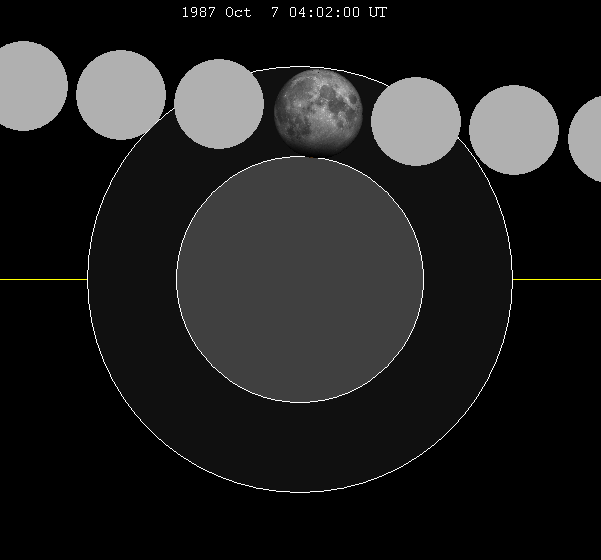 October 1987 lunar eclipse chart of moon's path through the earth's shadow. thumb